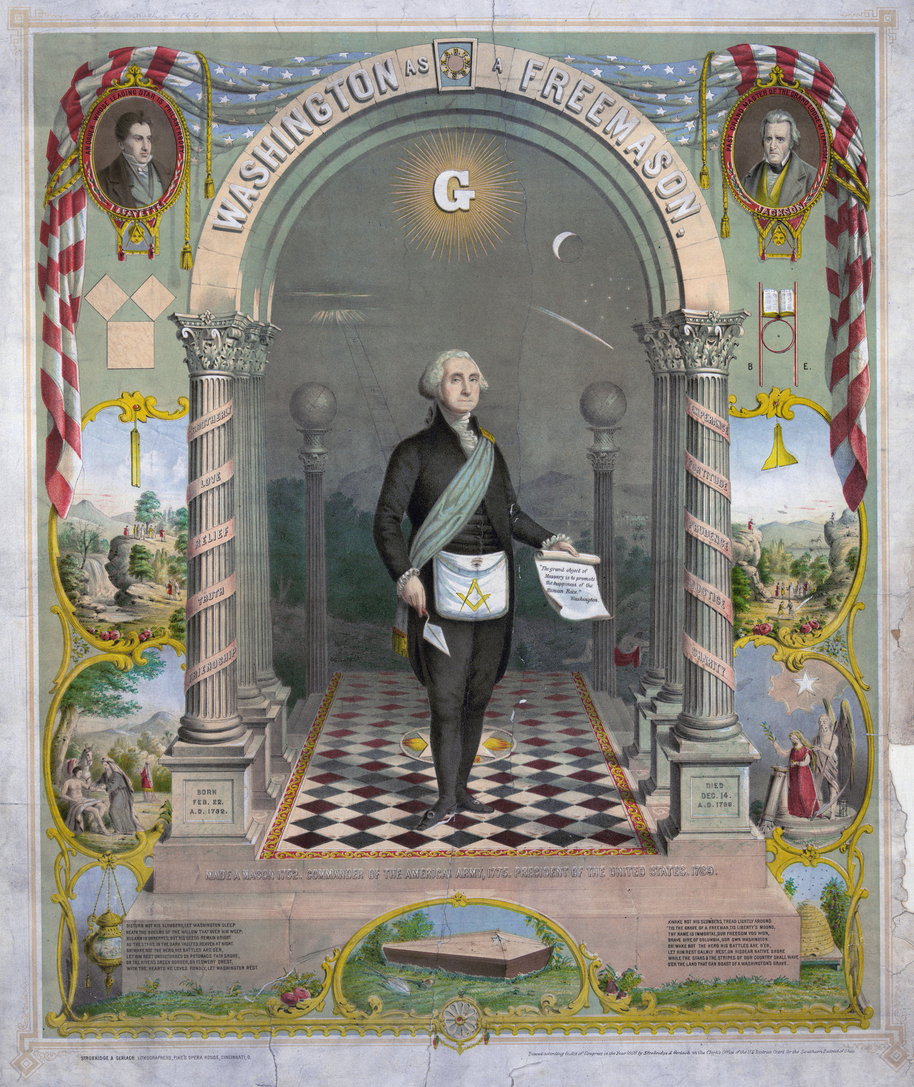 Washington as a freemason. A full-length portrait of George Washington, standing, facing slightly right, in masonic attire, holding scroll and trowel.